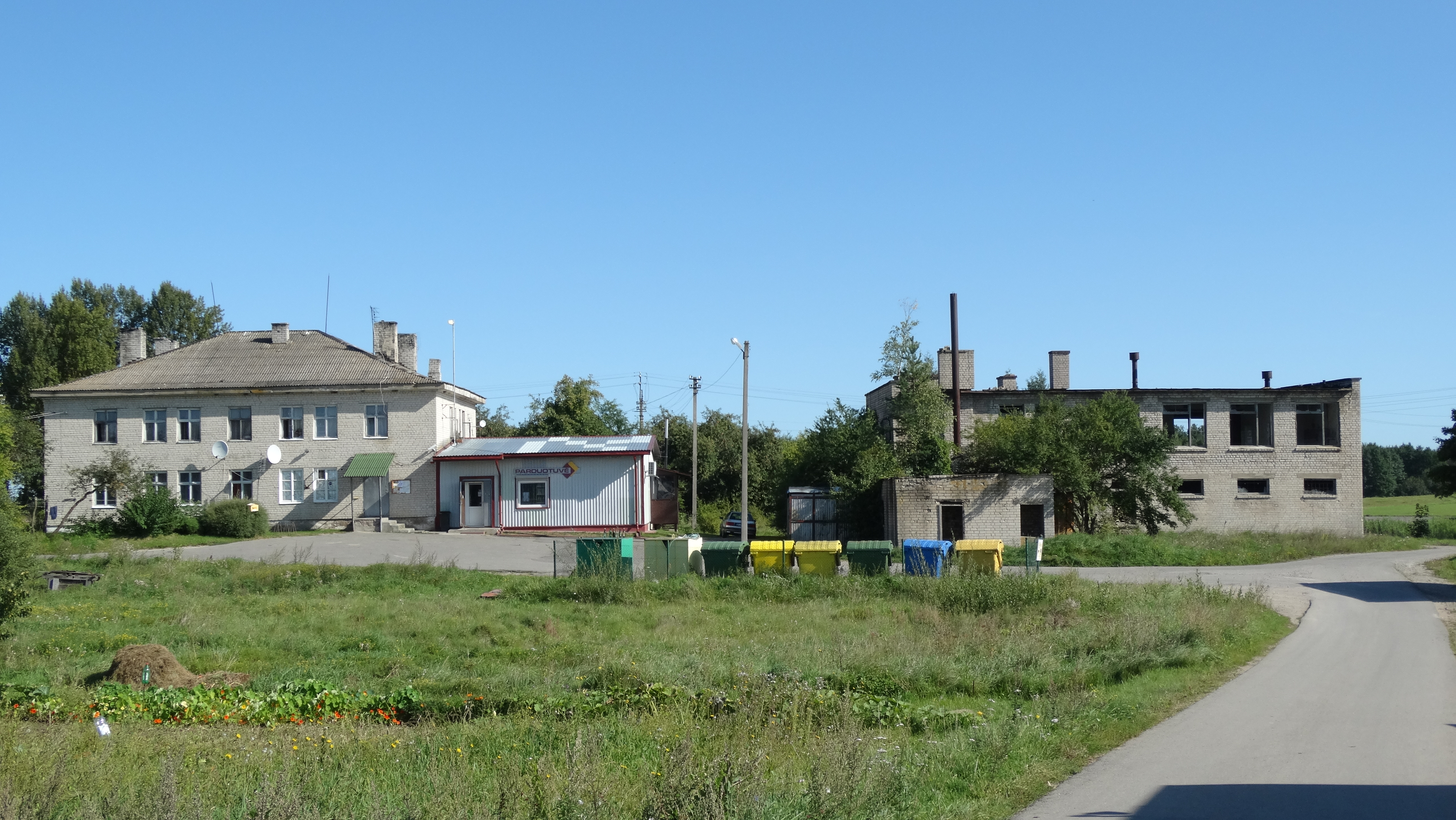 Skirlėnai, Vilnius district, Lithuania